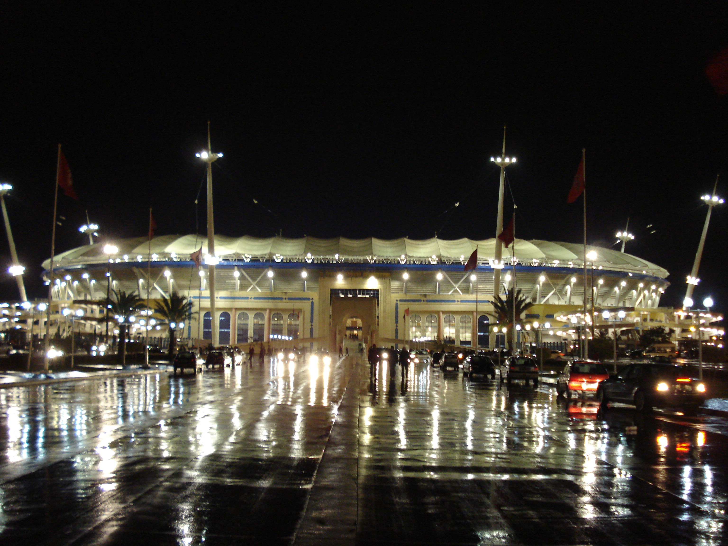 Radès stadium (during the football match Tunisia-the Netherlands) by night, Tunis, Tunisia